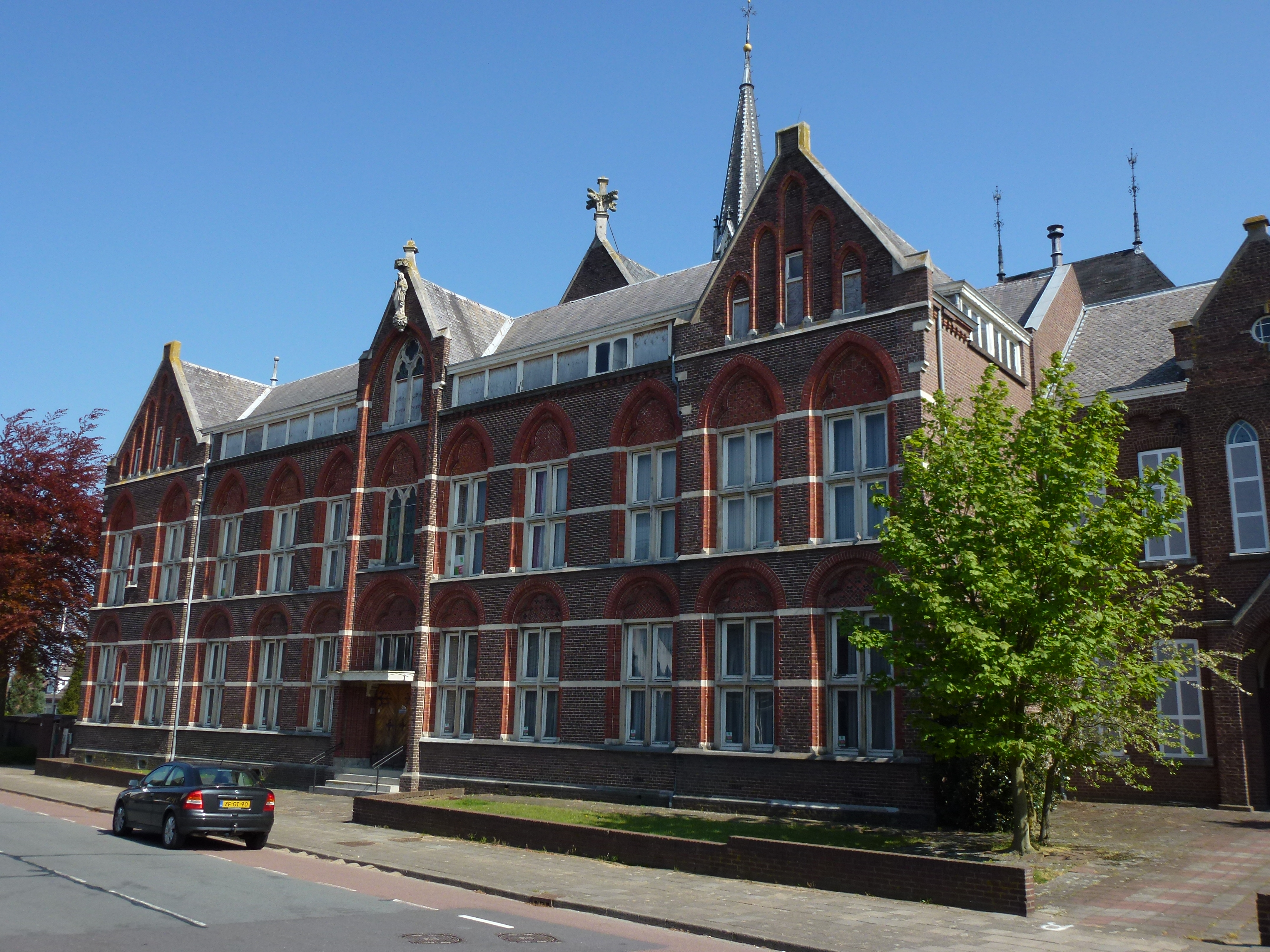 Koningsbosch (Echt-Susteren) voormalig klooster westgevel